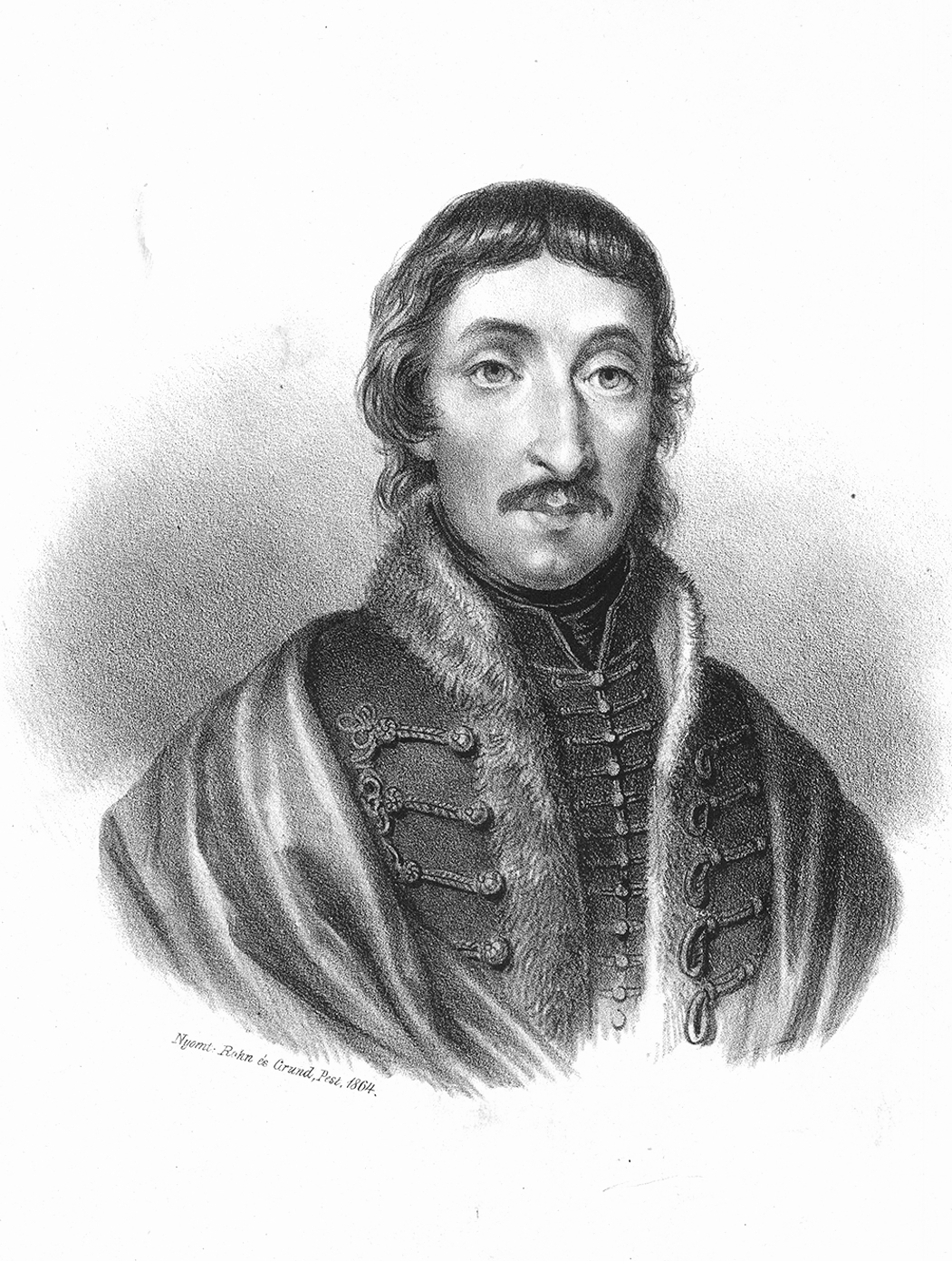 Mihály Csokonai Vitéz – drawn by János Erőss in 1804, copperplate made by Friedrich John in 1816